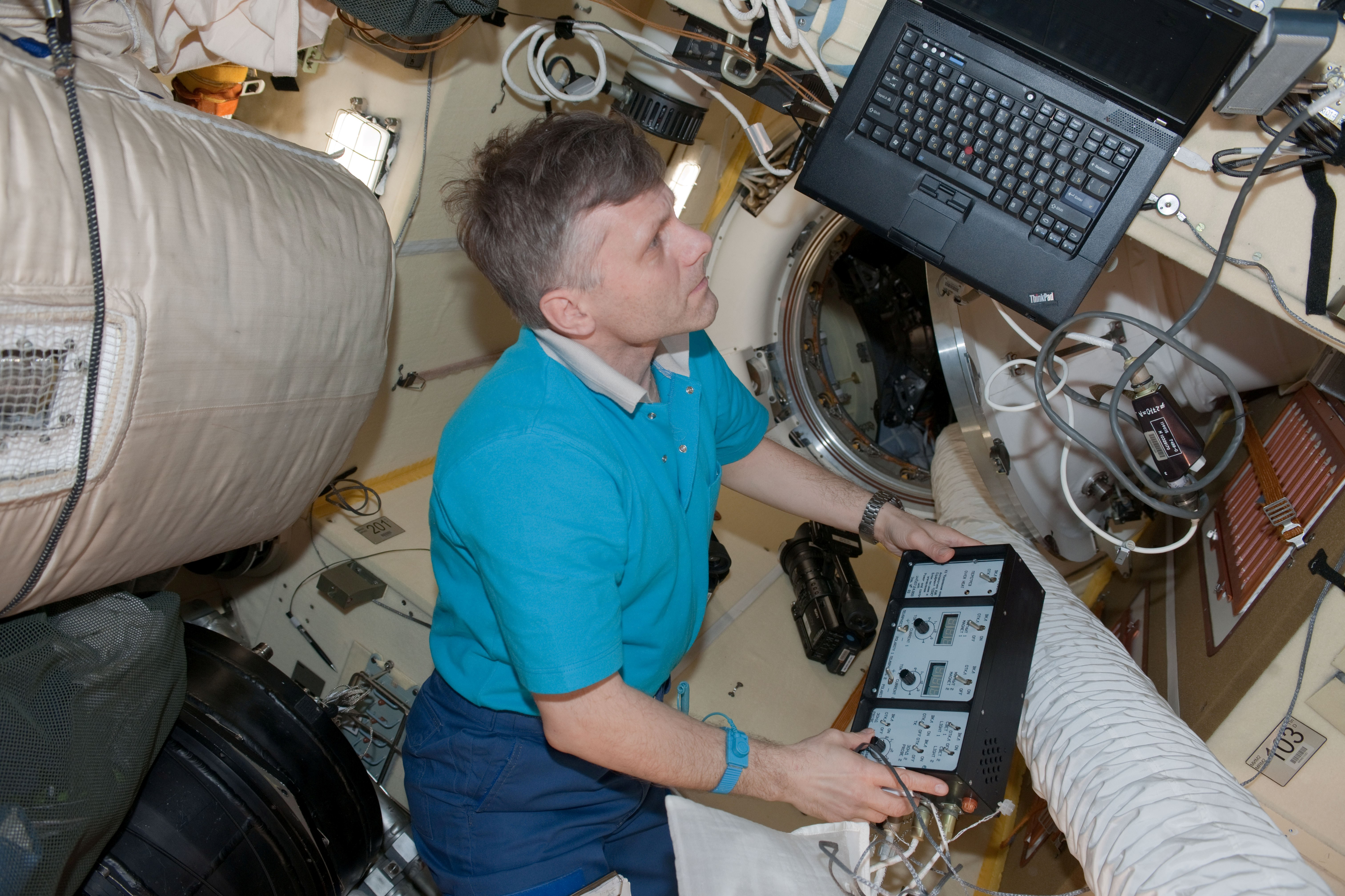 Russian cosmonaut Andrey Borisenko, Expedition 27 flight engineer, conducts an active session for the Russian experiment KPT-10 "Kulonovskiy Kristall" (Coulomb Crystal) in the Poisk Mini-Research Module 2 (MRM2) of the International Space Station.